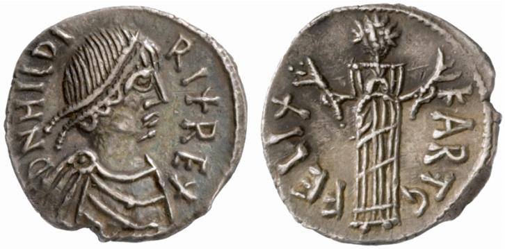 50-Denarius silver coin of Hilderic vandal king (523-530). Avers: D N HILDI - RIX REX. Revers: FELIX - KARTG. 15 mm, 1.24 g